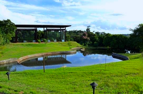 Reflecting pool and visitor center at the Dr. Daisaku Ikeda Park in Londrina Brazil